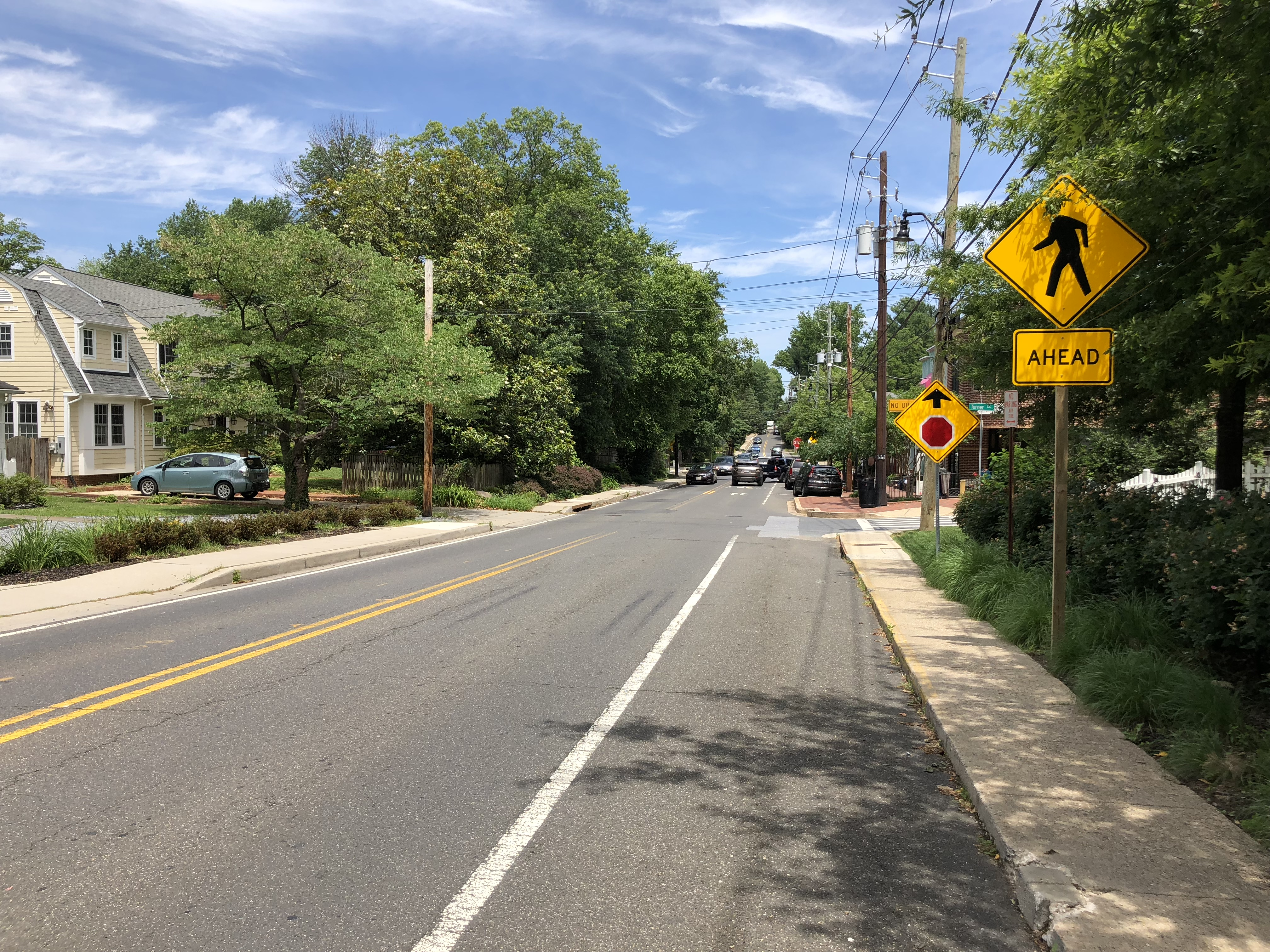 View north along Maryland State Route 186 (Brookville Road) between Shepherd Street and Turner Lane in Chevy Chase Section Three, Montgomery County, Maryland